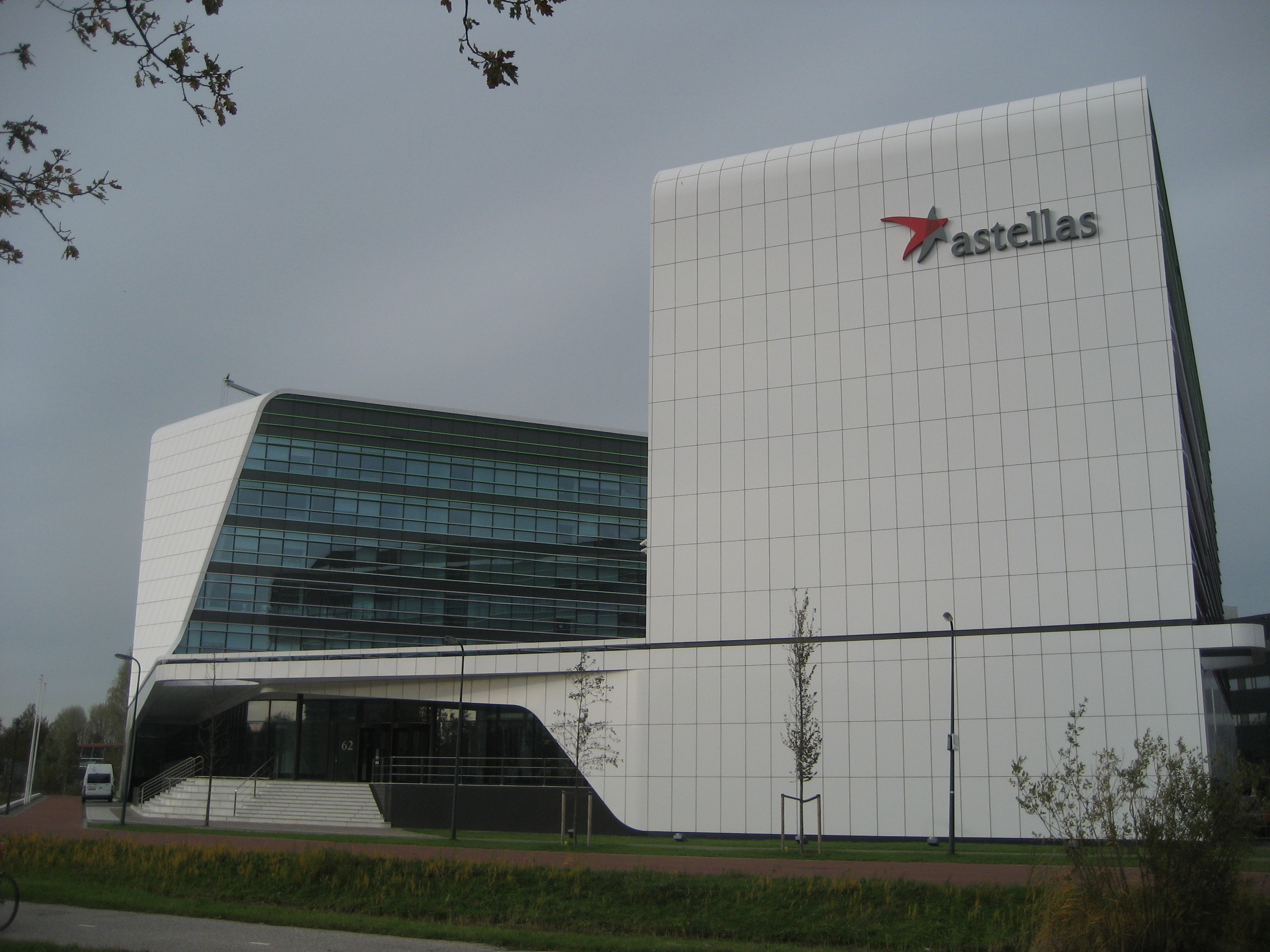 Astellas. Leiden Bio Science Park (The Netherlands)